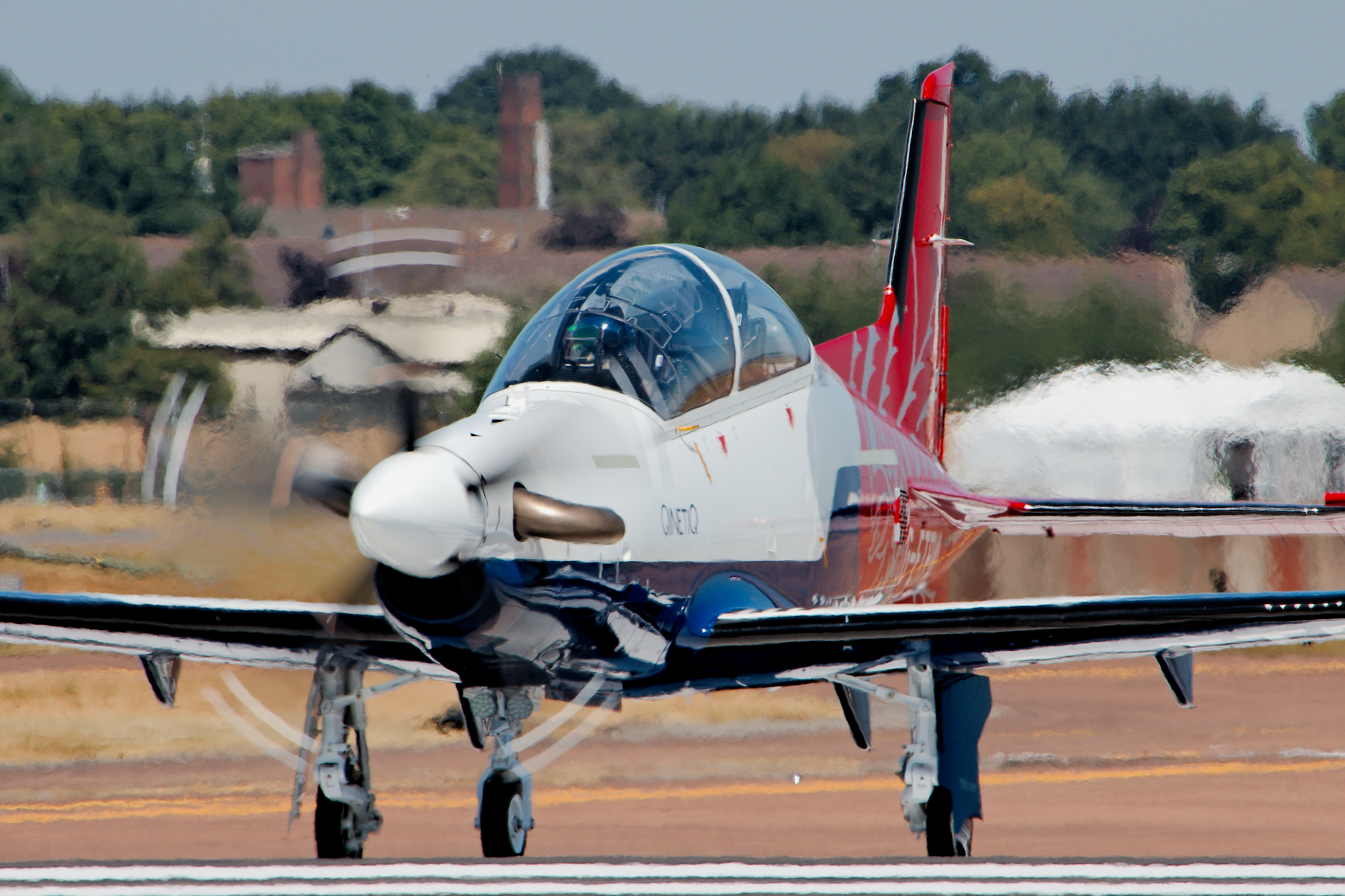 PC-21 - RIAT 2018